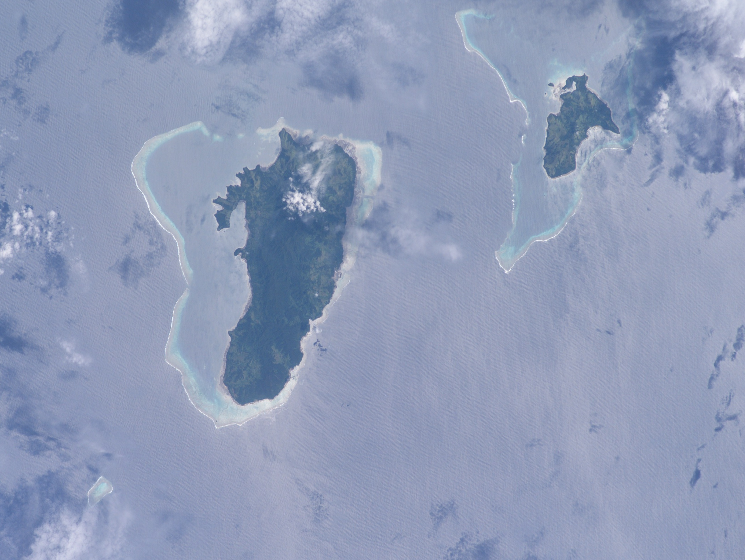 NASA astronaut image of Gau Island with Nairai Island (on the right), Fiji